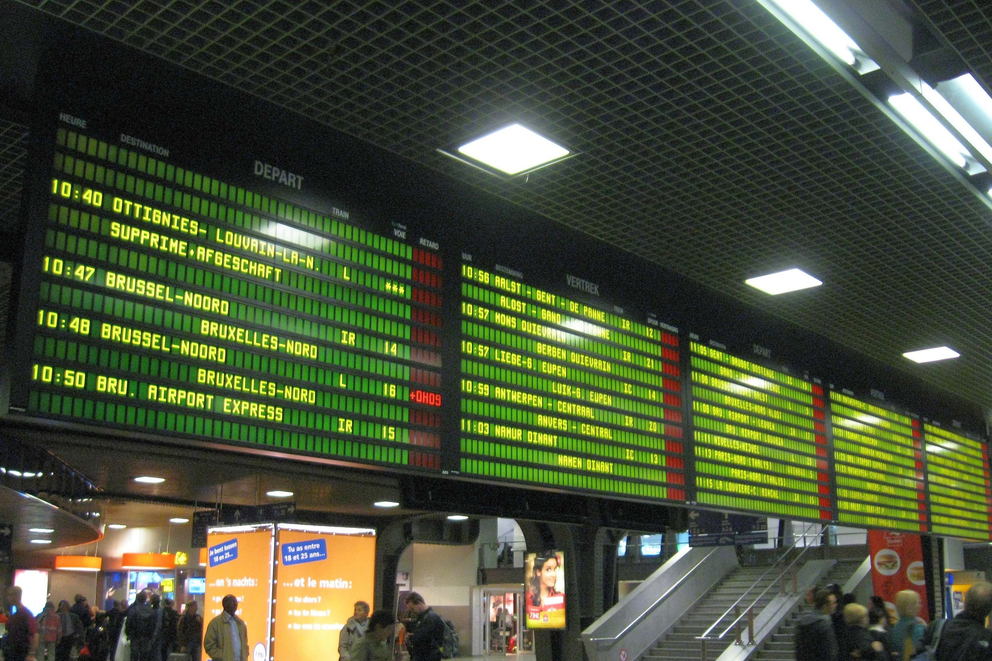 destionation display of Brussel South Railway Station